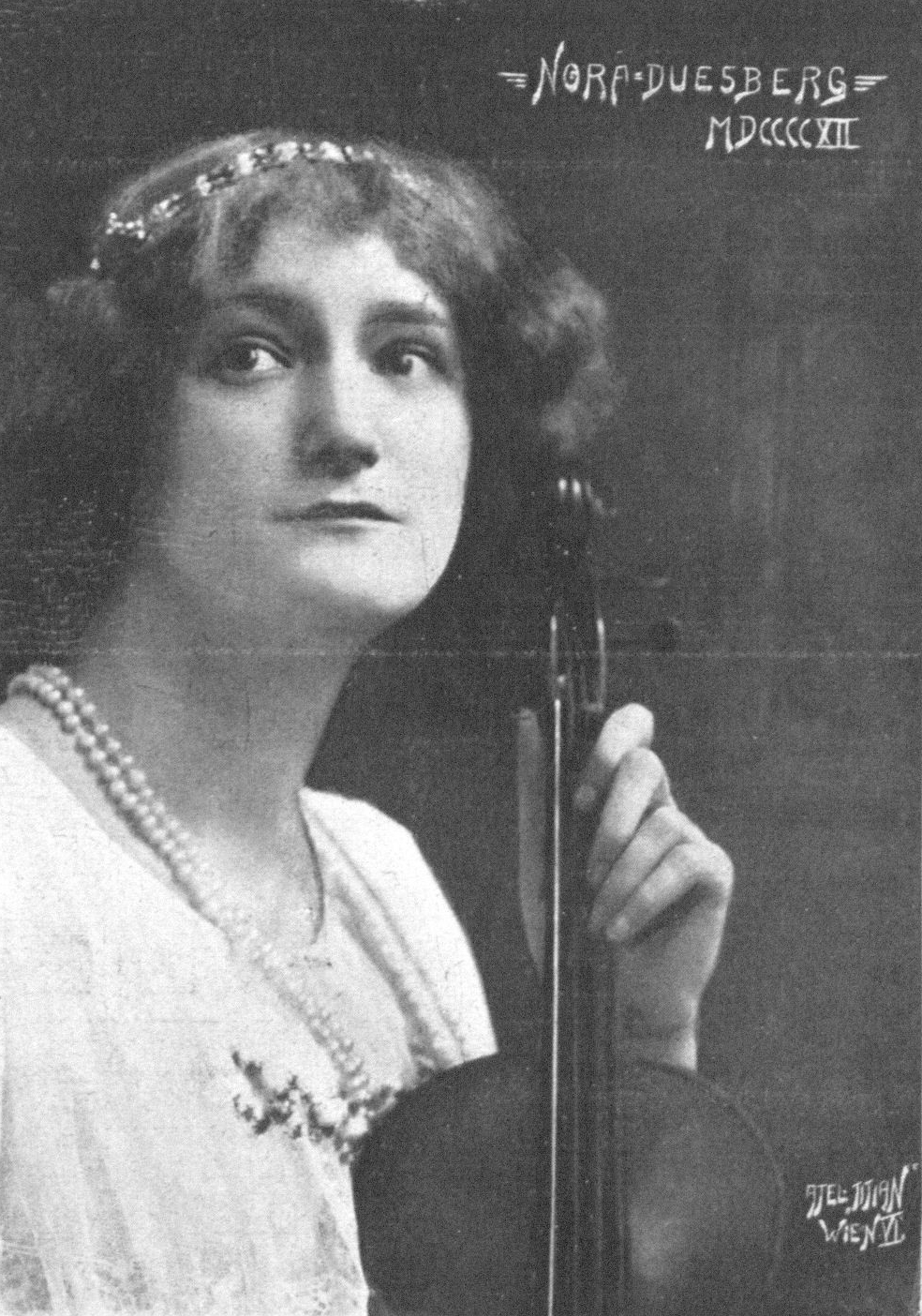 Nora Duesberg (1895–1982), Austrian violinist; photo from 1912